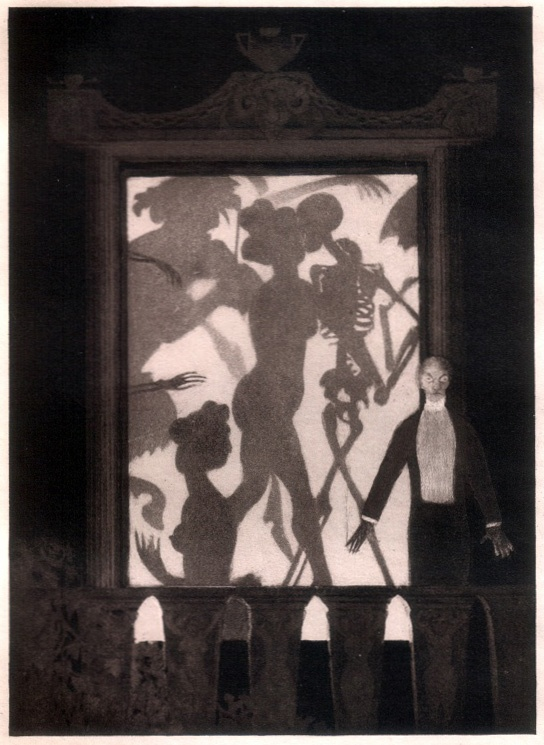 Illustration by Althea Gyles for Oscar Wilde's book *The Harlot's House*, printed for Leonard Smithers at the Mathurin Press, 1904